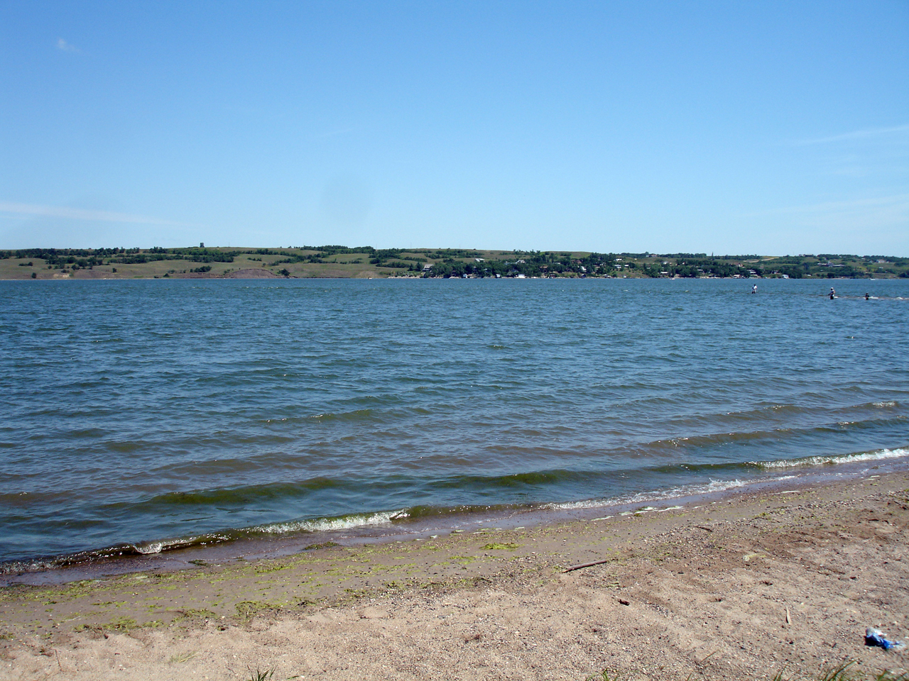 Last Mountain Lake, a lake in southeast Saskatchewan, Canada.